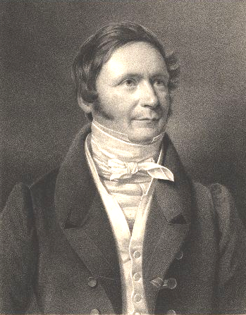 Dietrich Wilhelm Heinrich Busch (1788–1858), German obsterician